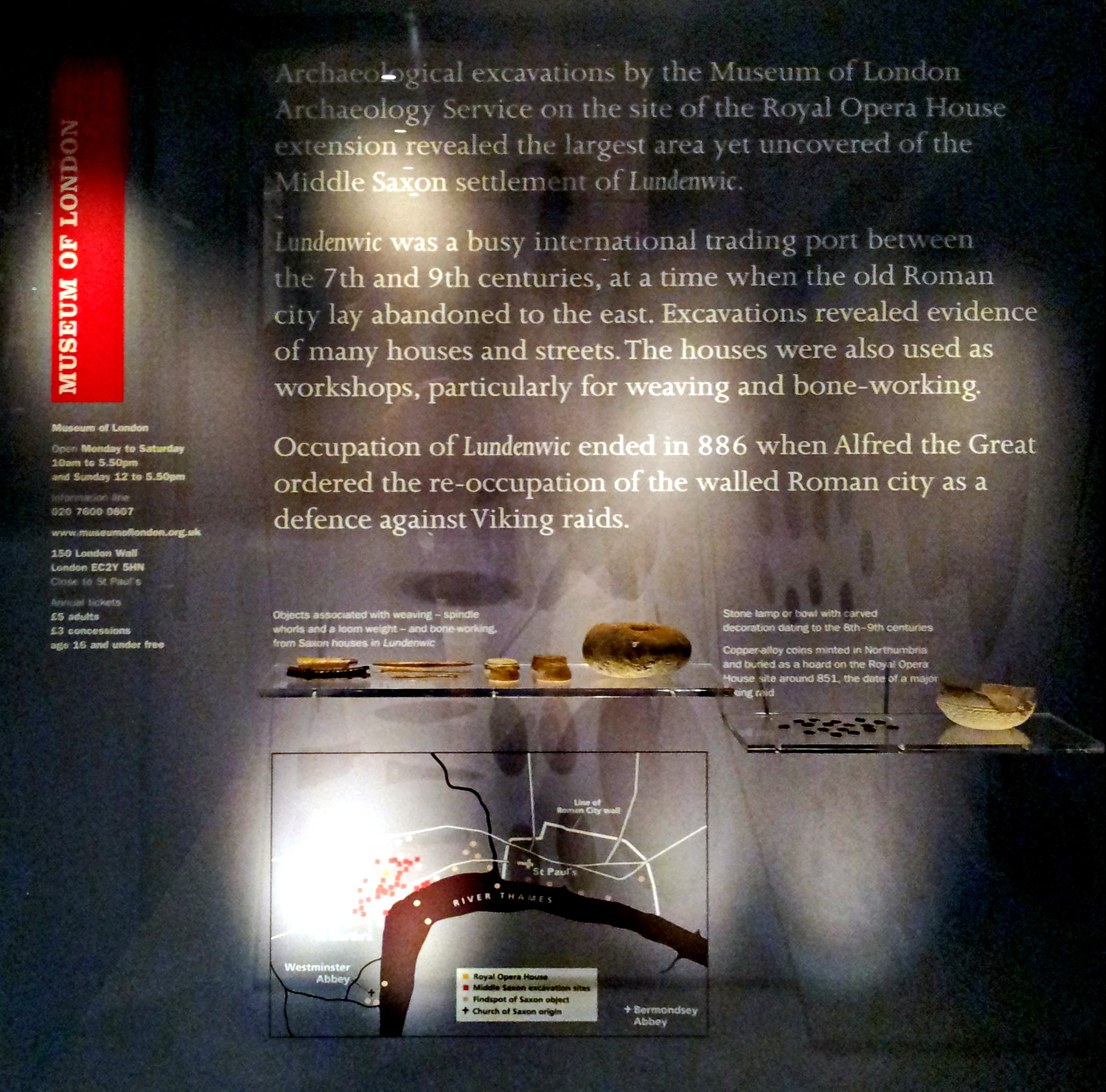 London, Royal Opera House Covent Garden. Display of achaeological finds, found at the site of the theater during renovation work.